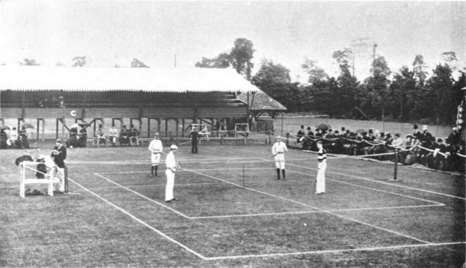 Original description: "The brothers Renshaw (England) v. the brothers Clark (America) at Wimbledon (friendly match). I can't exactly identify each person but: behind the net: Joseph Sill Clark, Sr. (1861-1956), US tennis player, US doubles champion in 1885, and his brother Clarence Clark (1859-1937), US tennis player, US championship runner-up 1882. this side of the net: William (1861-1904) and Ernest Renshaw (1861-1899), English tennis players, both multiple Wimbledon singles and doubles champion. Note the court is still a pure "doubles" court.